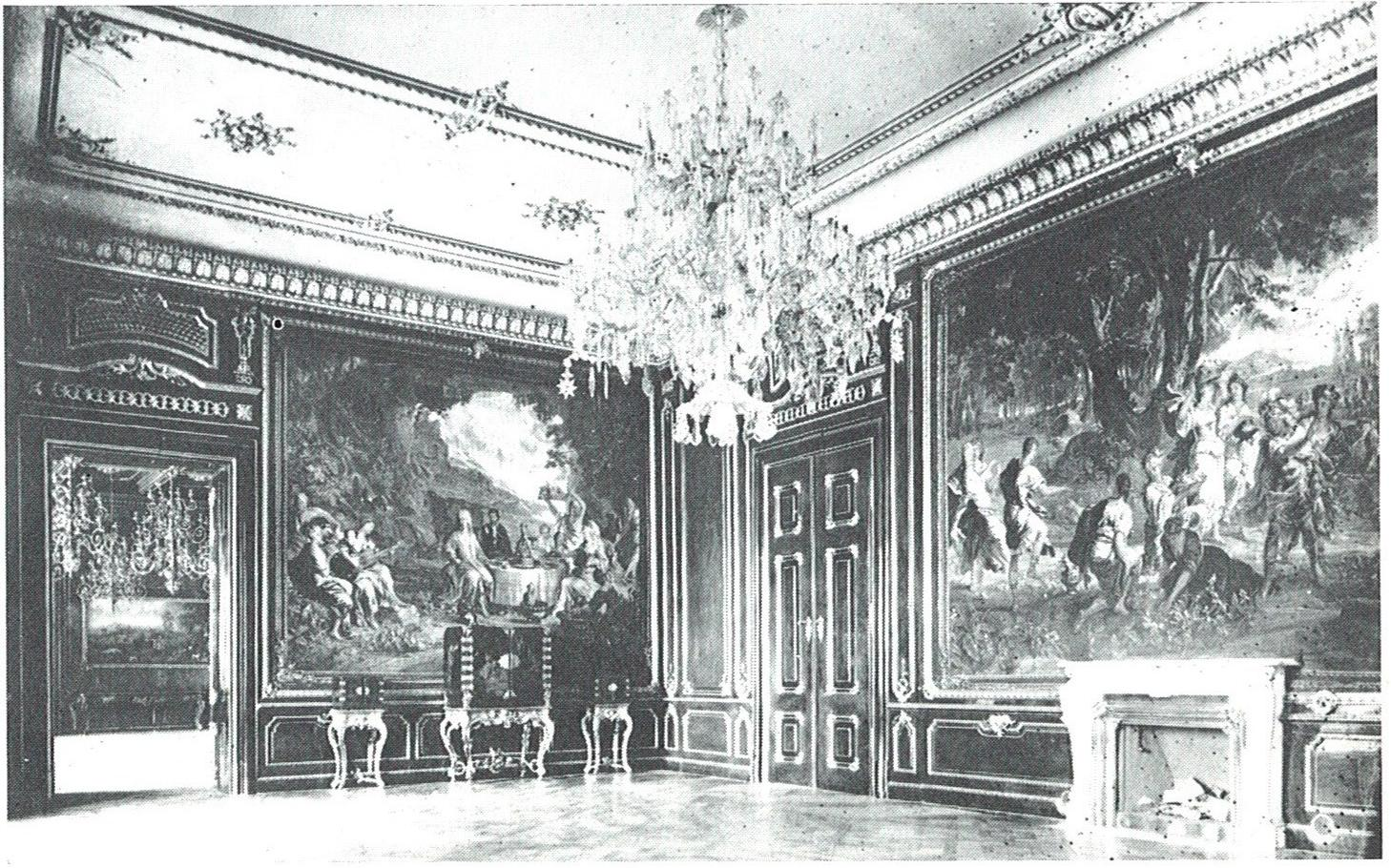 The salon with gobelins in the Palais Schwarzenberg at Neuer Markt, in Vienna's I. district Innere Stadt (Vienna).